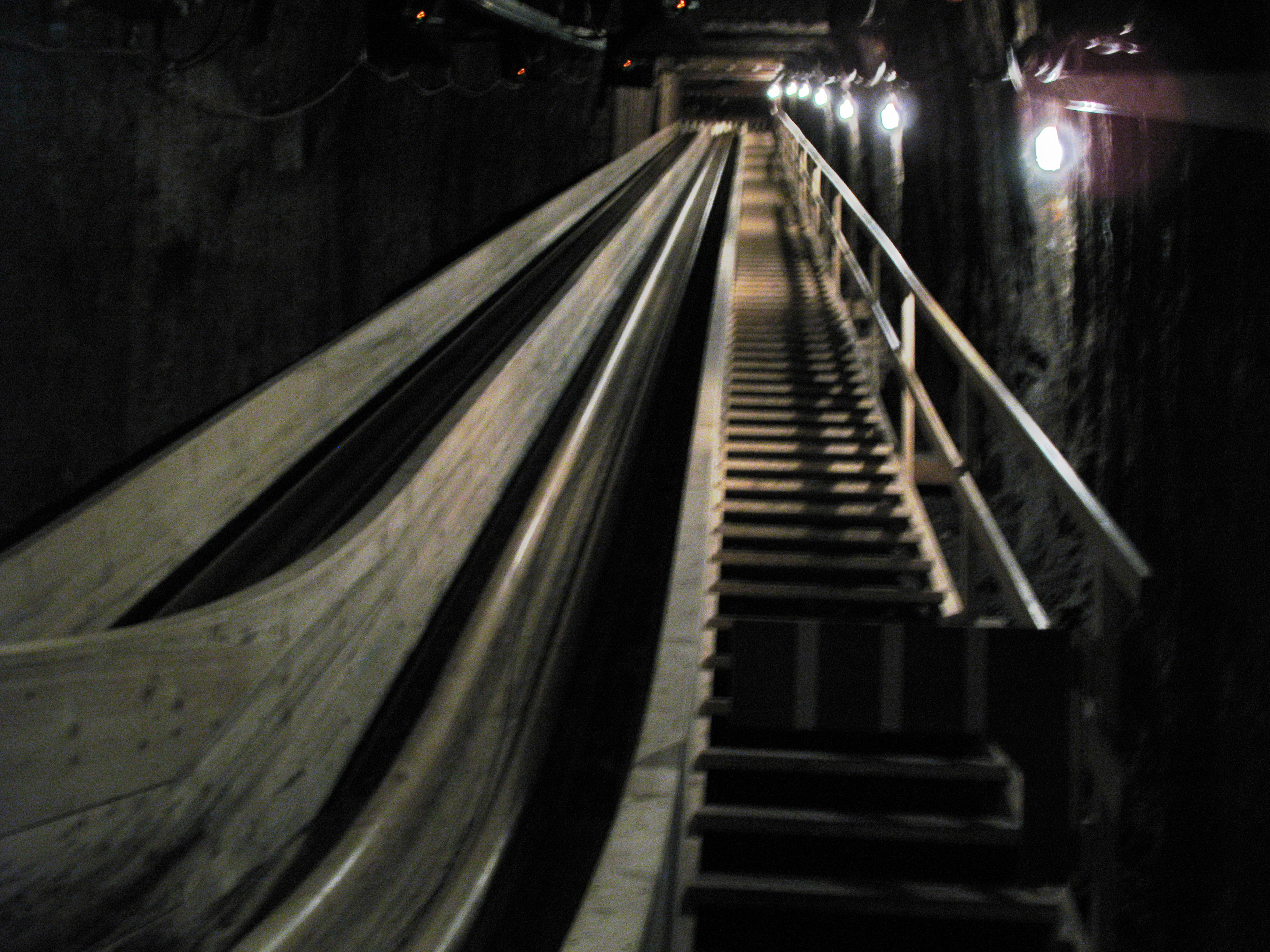 Wooden Slide in the Salt Mine, Hallstatt, Austria